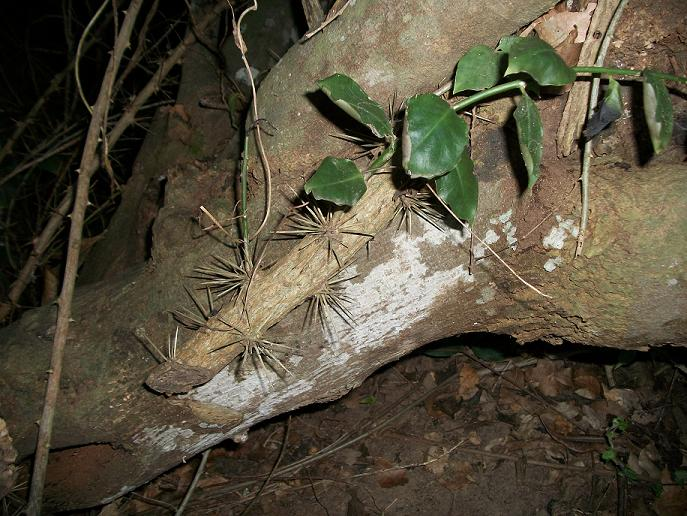 Cut stem of a Barbados gooseberry showing green regrowth, growing in Natal camwood at Ilanda Wilds. The Barbados gooseberry is an invasive cactus that is difficult to eradicate. It presents a serious threat to coastal forests of KwaZulu-Natal.